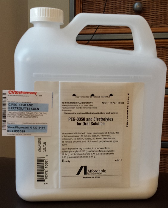 A container of polyethylene glycol. Other information Cropped from the original